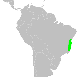 natural world distribution of Caesalpinia echinata, according to the book "Plant" (2005) ISBN 075660589X